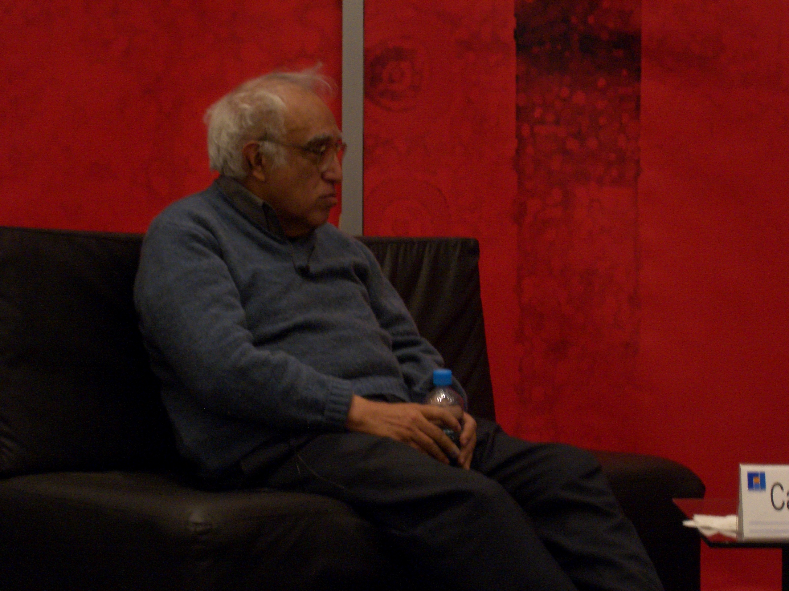 Carlos Monsivais, Mexican writer.